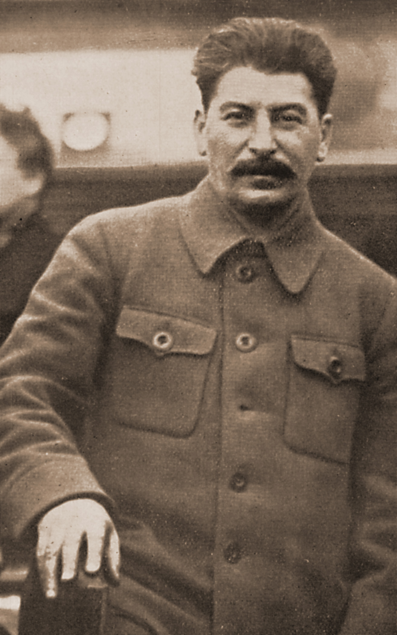 Joseph Stalin, General Secretary of the Communist Party of the Soviet Union